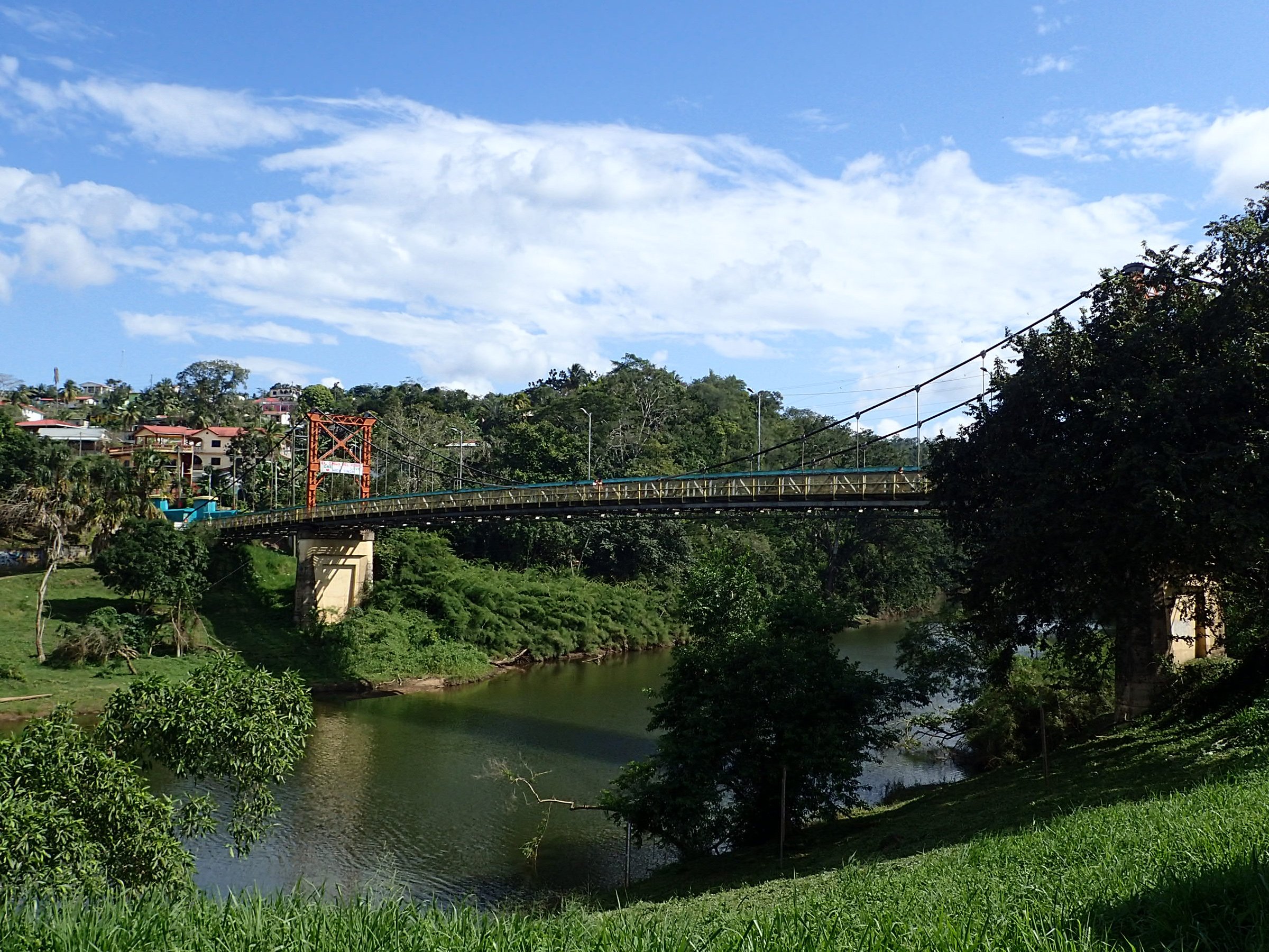 Hawkesworth Bridge in San Igancio, Belize